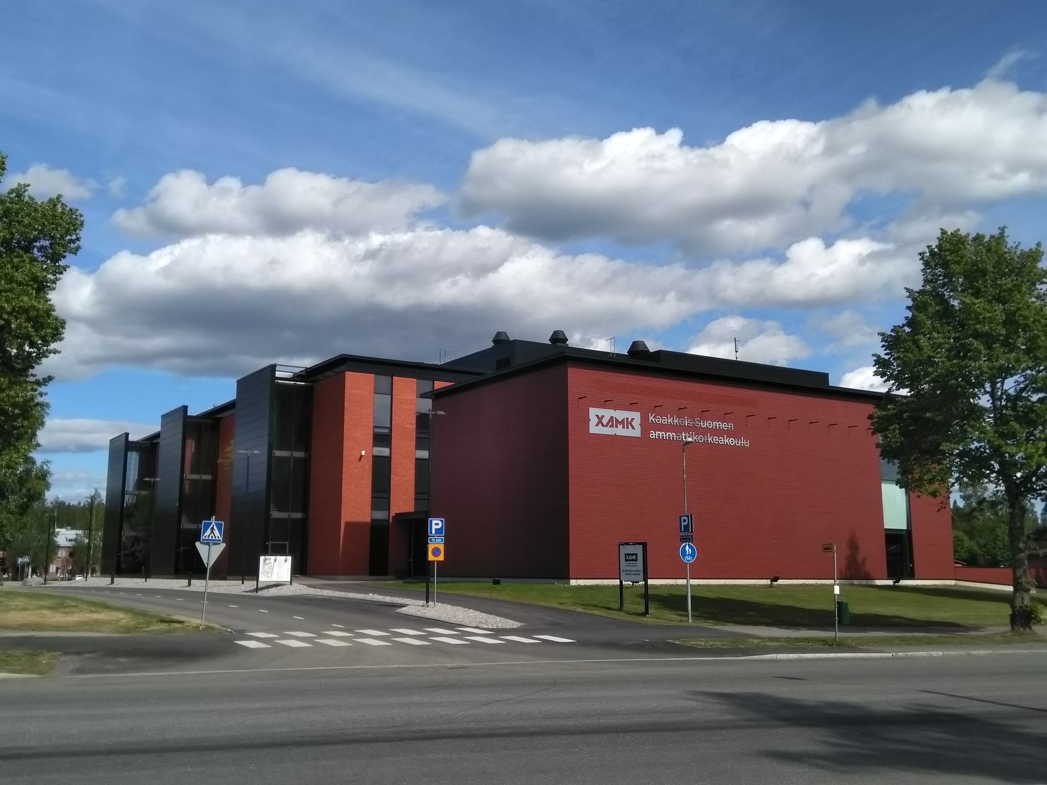 Image of Xamk's (South-Eastern Finland University of Applied Sciences) Mikpoli building located in Mikkeli, Finland.